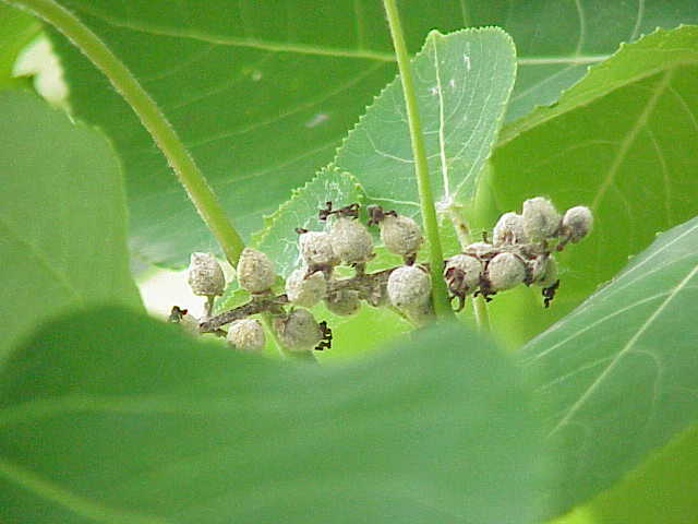 Species: Populus wilsonii Family: Salicaceae Image No. 1